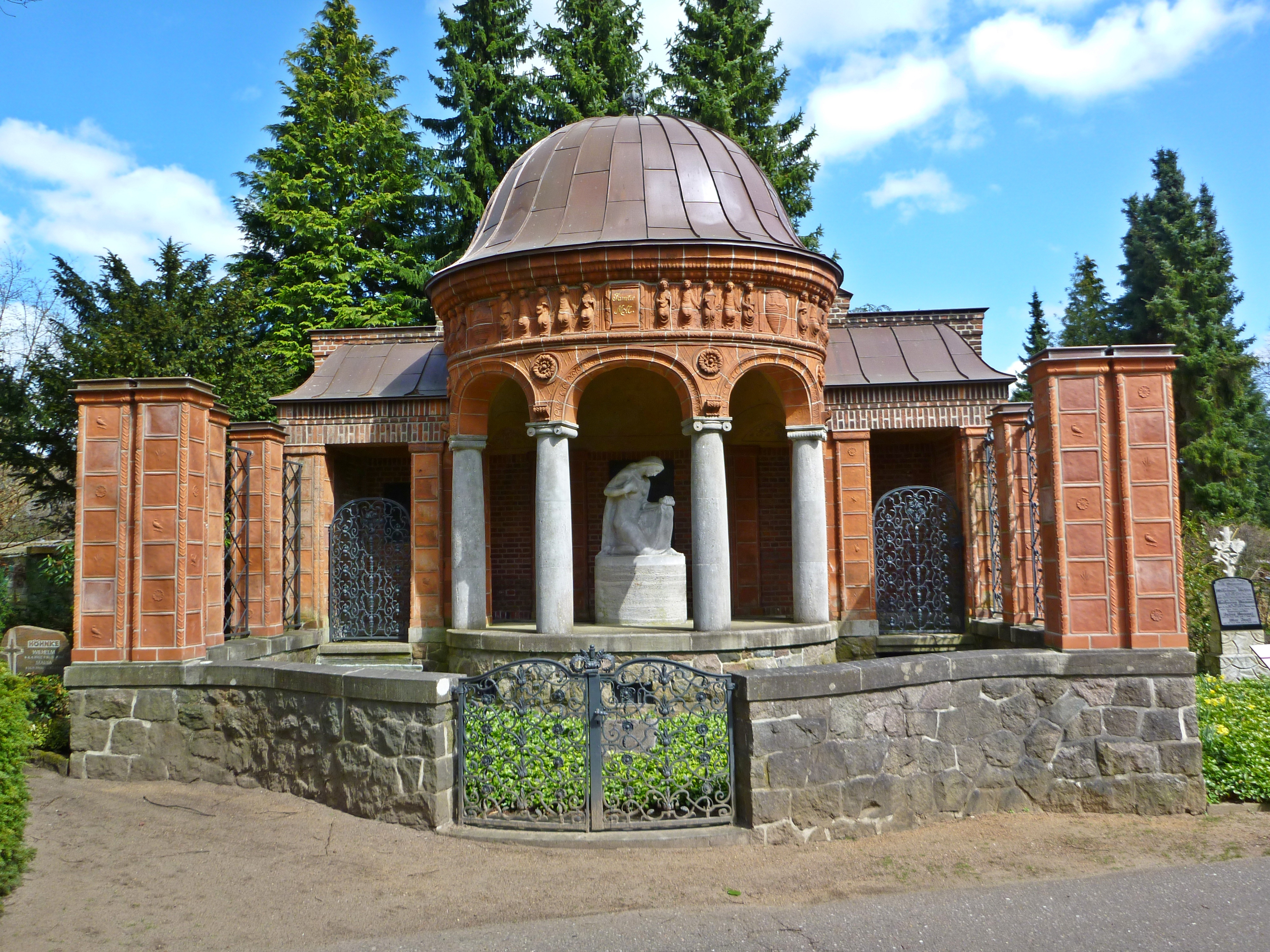 Mausoleum of family Moll located on the Nordfriedhof in Neumünster, a Cultural heritage monument in Neumünster